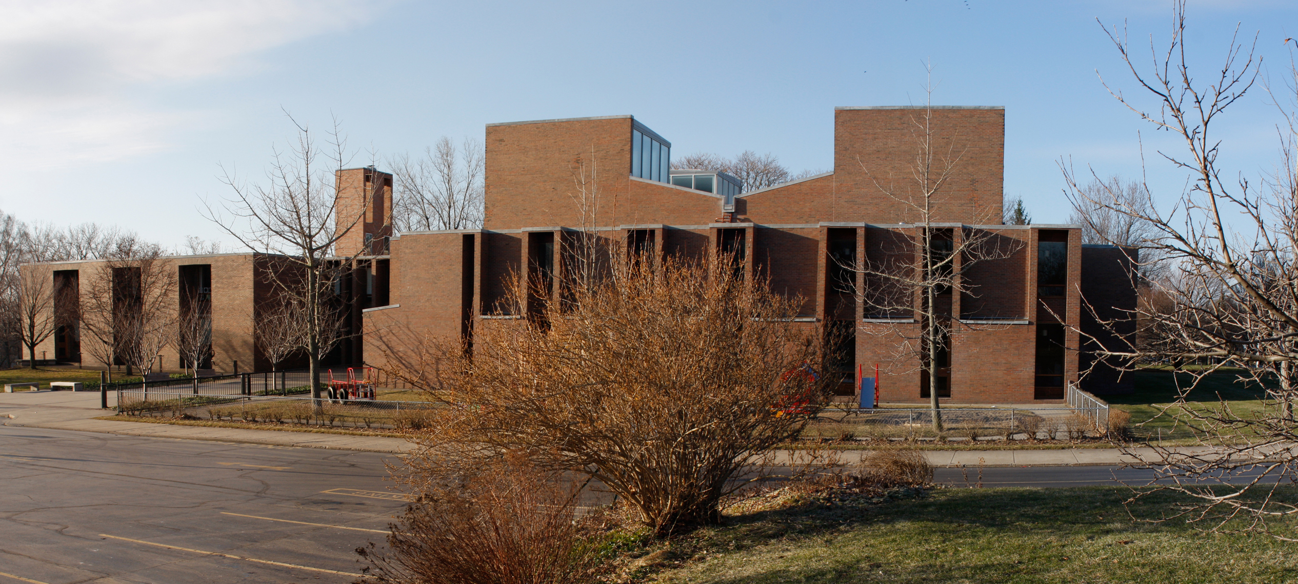 First Unitarian Church of Rochester NY North Side at West end